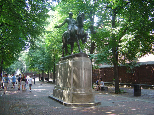 This is a photograph of the Paul Revere Statue outside the Old North Church in Boston, Massachusetts. The photo was taken in August of 2006 by me with a Sony Cybershot Digital camera. MamaGeek (talk/contrib) 11:23, 24 October 2006 (UTC)